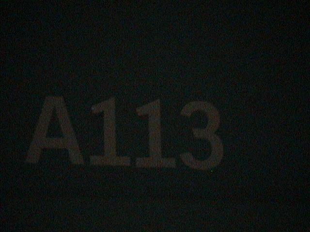 The sign on Room A113 of the California Institute of the Arts in Valencia, California, USA. "A113" (sometimes A-113 or A1-13) is an inside joke, an Easter egg in animated films created by CalArts alumni, as Room A113 was the classroom used by graphic design and character animation students.